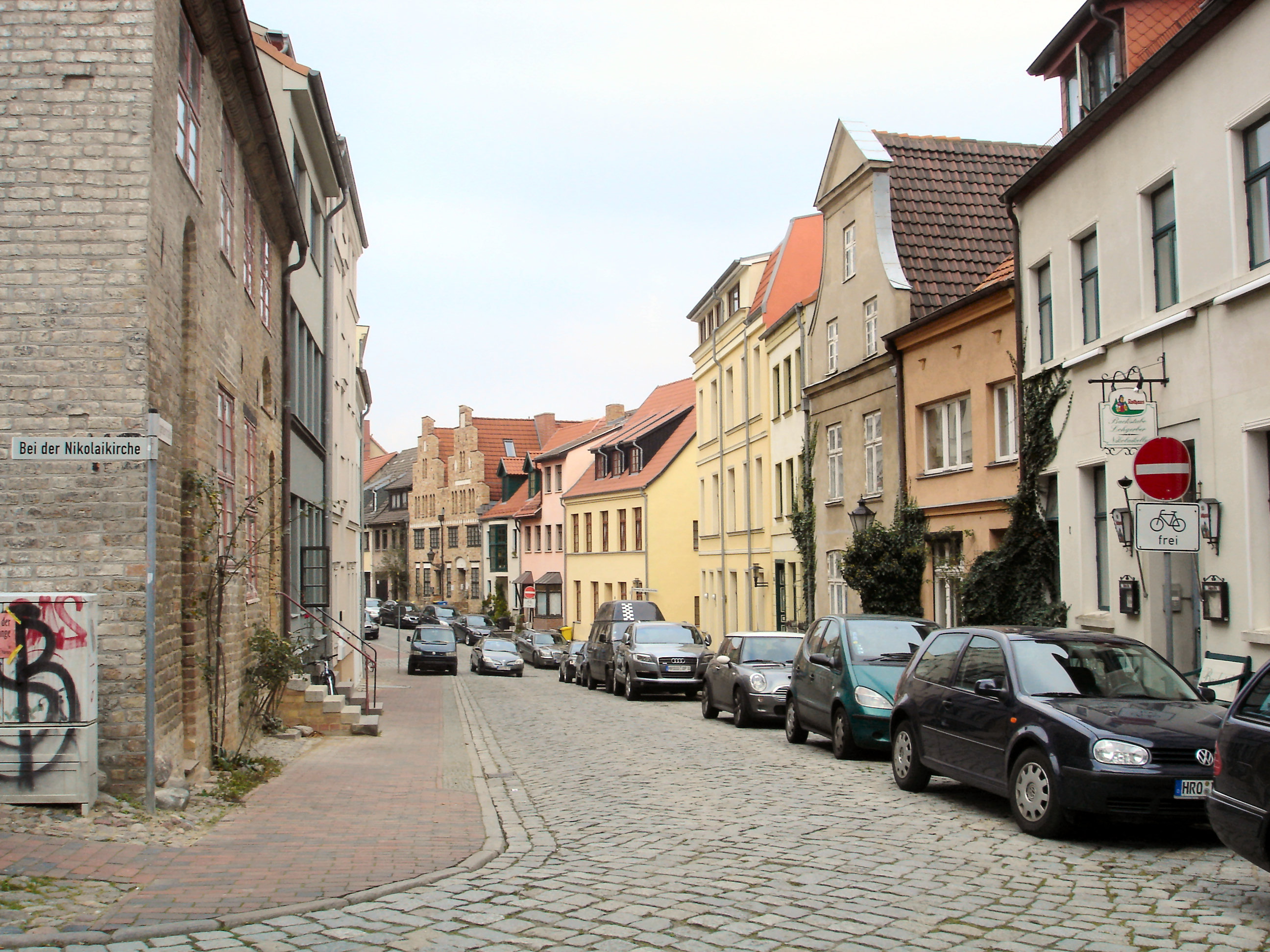 Street in the historic city of Rostock